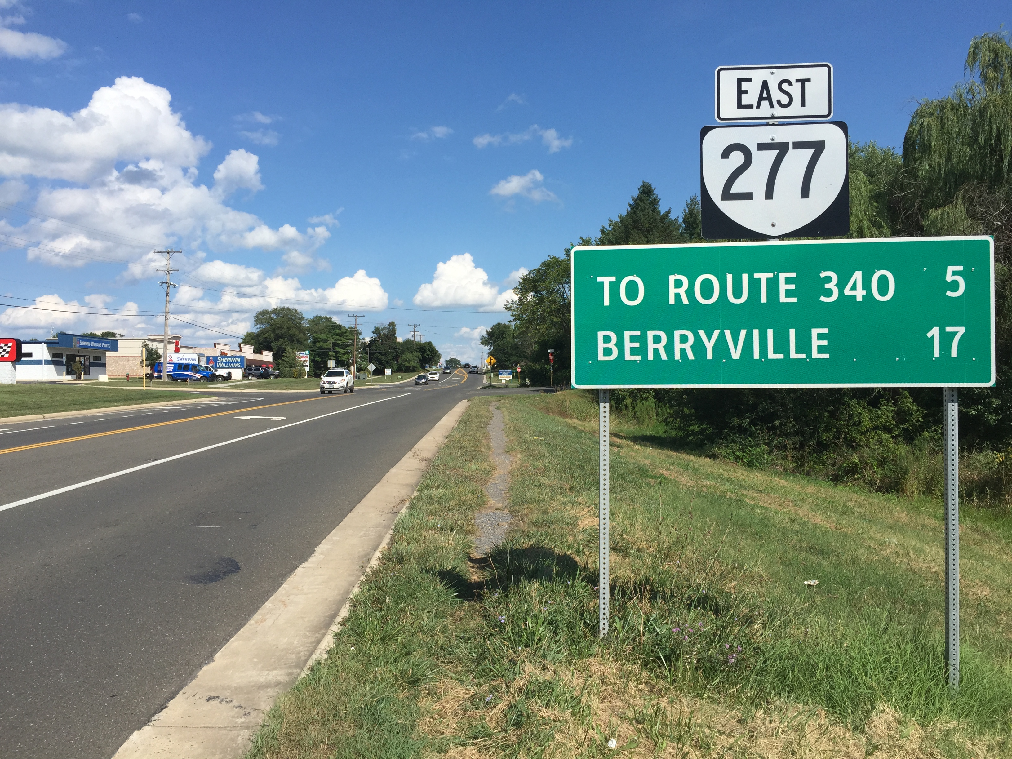 View east along Virginia State Route 277 (Fairfax Pike) at Ridgefield Avenue just east of Stephens City in Frederick County, Virginia